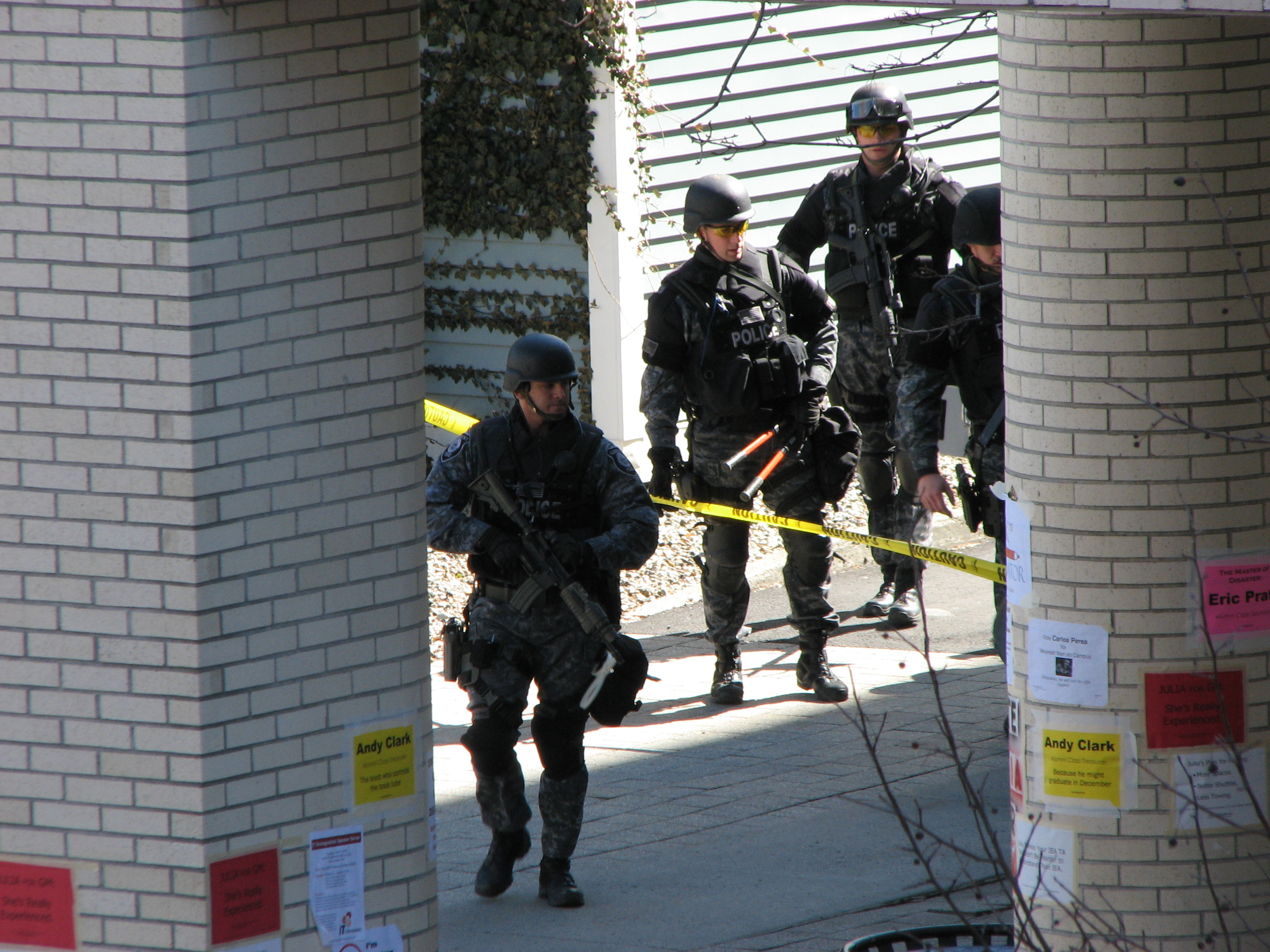 A SWAT team enters the CII building of Rensselaer Polytechnic Institute after the discovery of the body of Anson Tripp. See Body of alumnus found at Rensselaer Polytechnic Institute, New York.